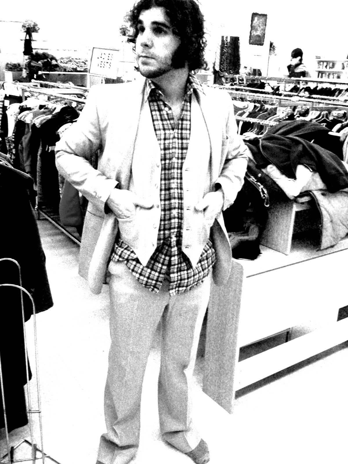 Ryan Bishops on tour with Ox in Prince George, Canada